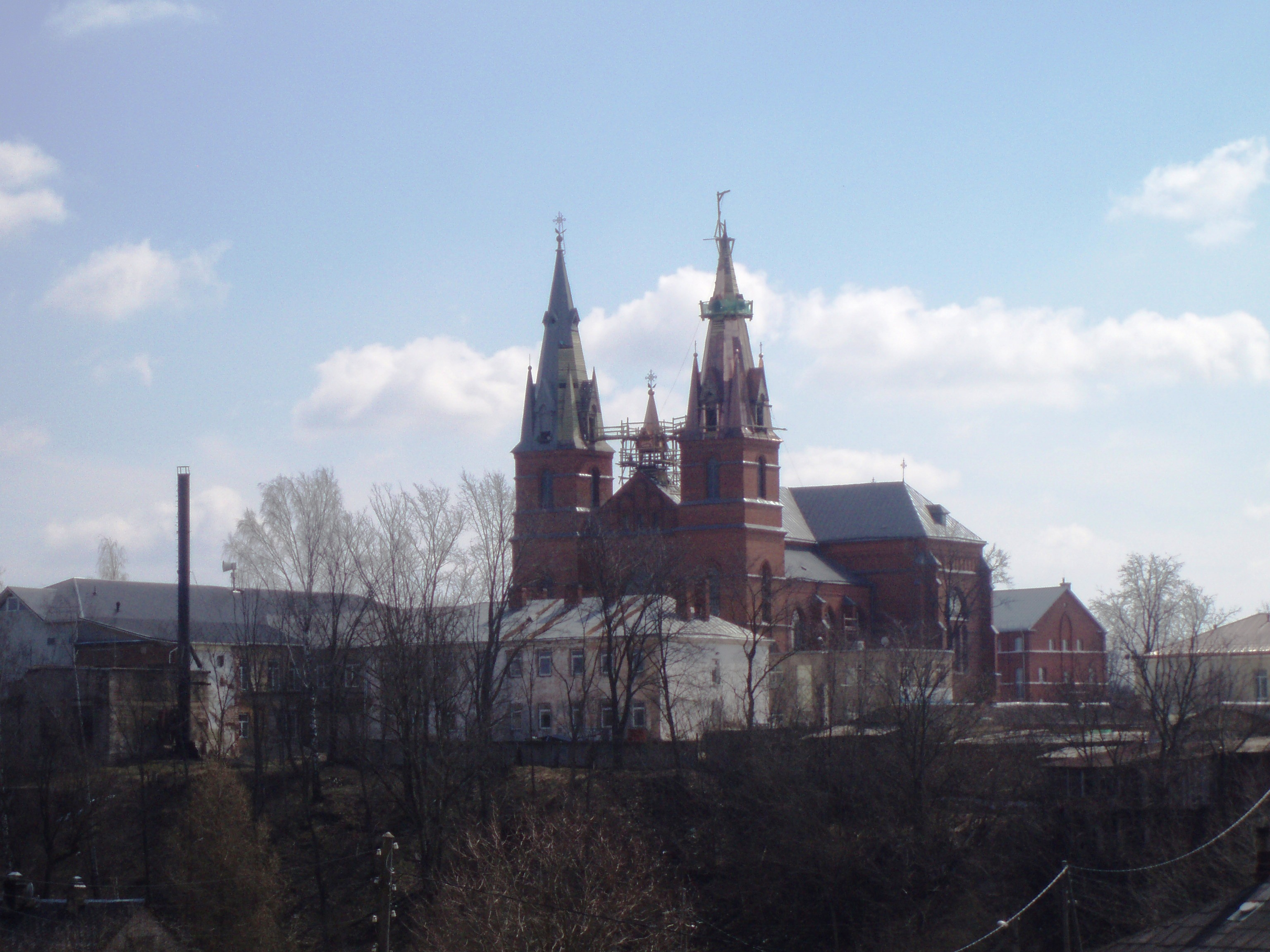 Reconstruction of Sacred Heart Cathedral in Rēzekne.